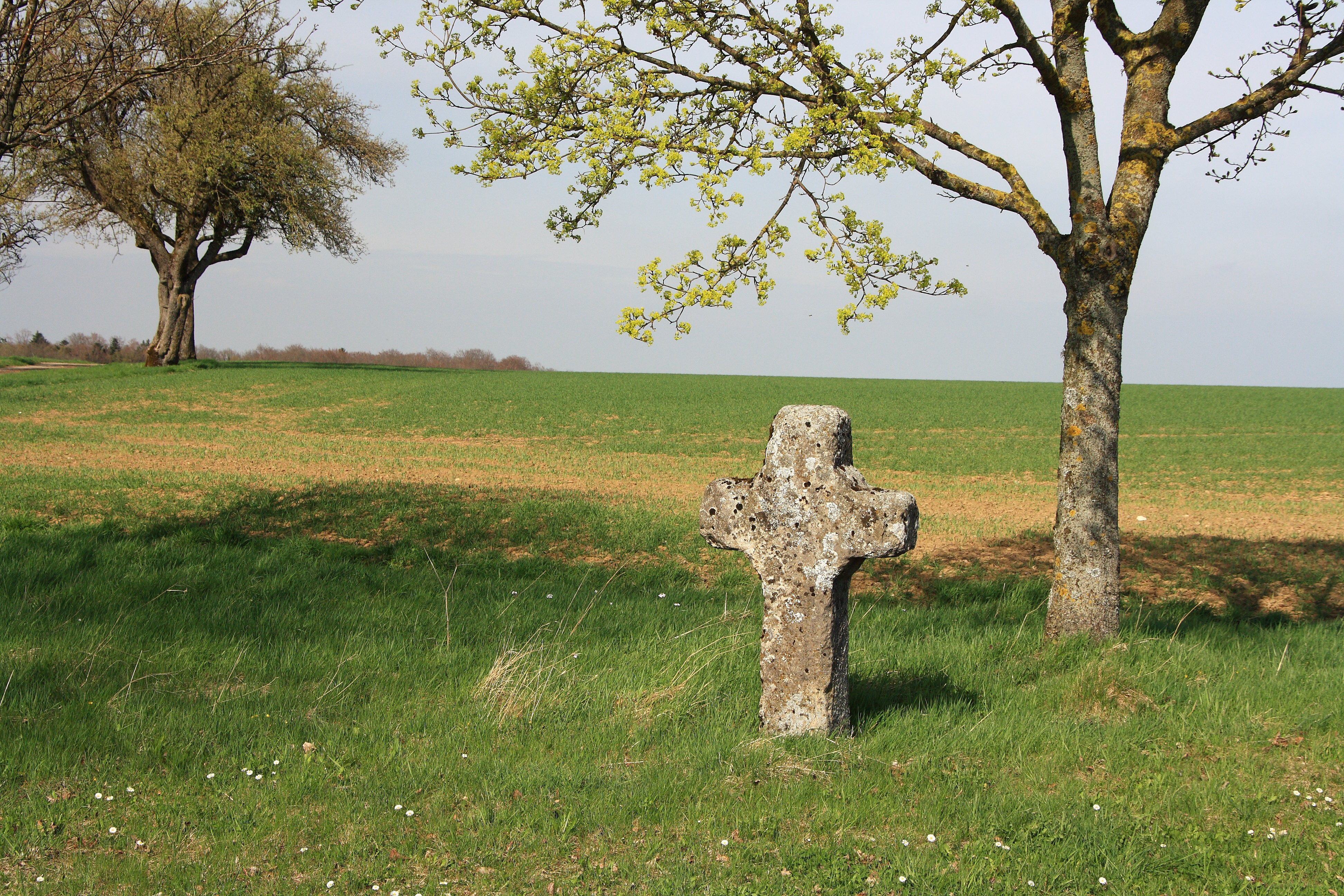 Wayside cross near Heimberg, Niederstetten.